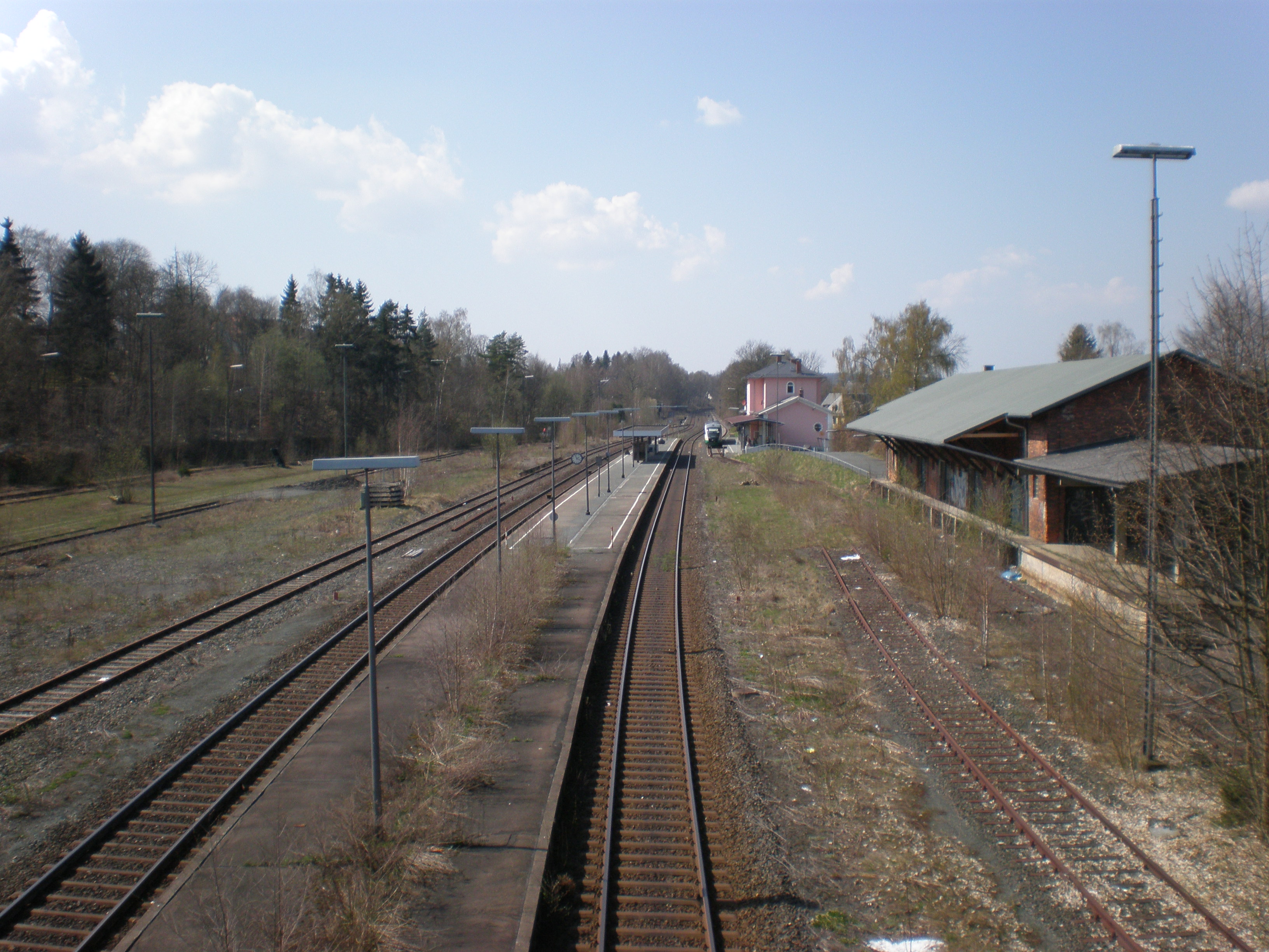 The train station in Münchberg.